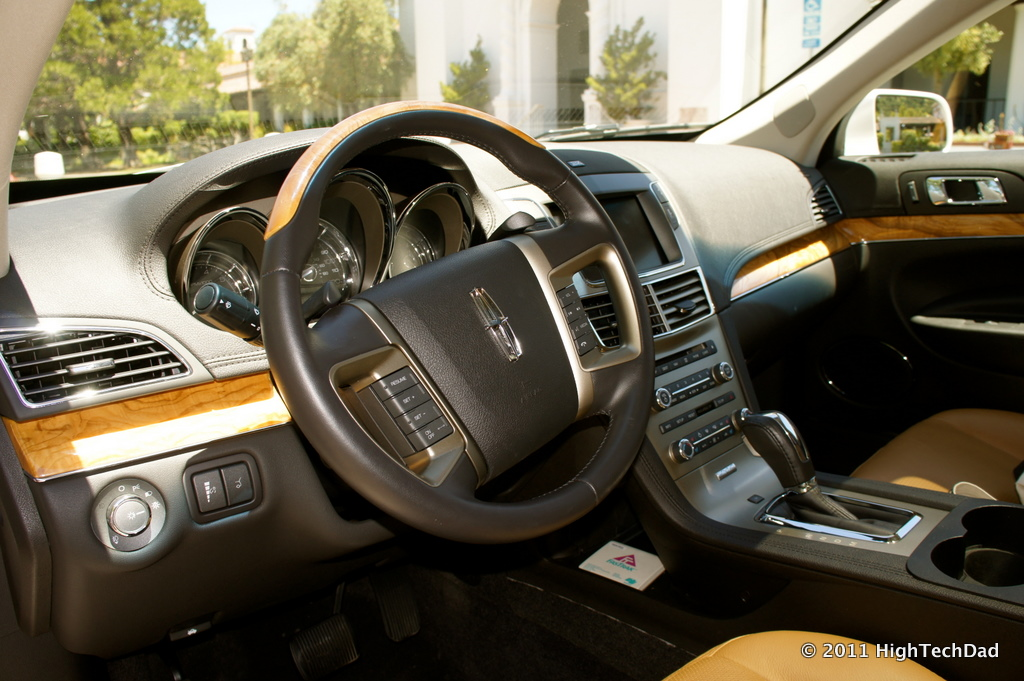 Photos from a photoshoot of the Lincoln MKT. More details & a video can be found at